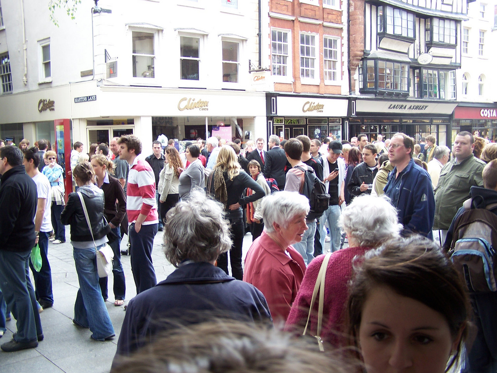 Thousands evacuated from Exeter city centre after a bomb had gone off in Princesshay. Thanks to Kristan Tarr for permission to use the photo.